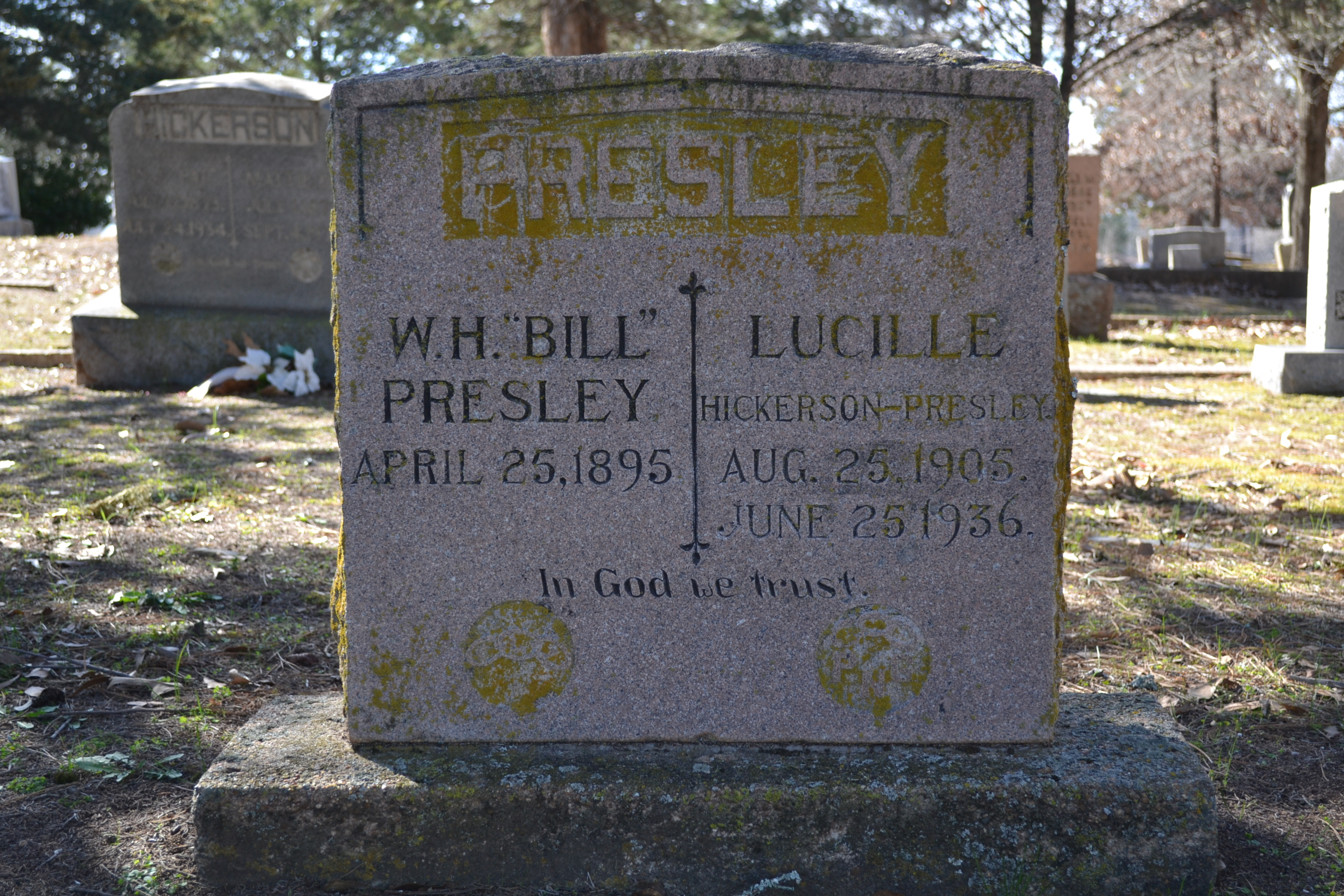 The headstone of William H. "Bill" Presley in Eylau Cemetery